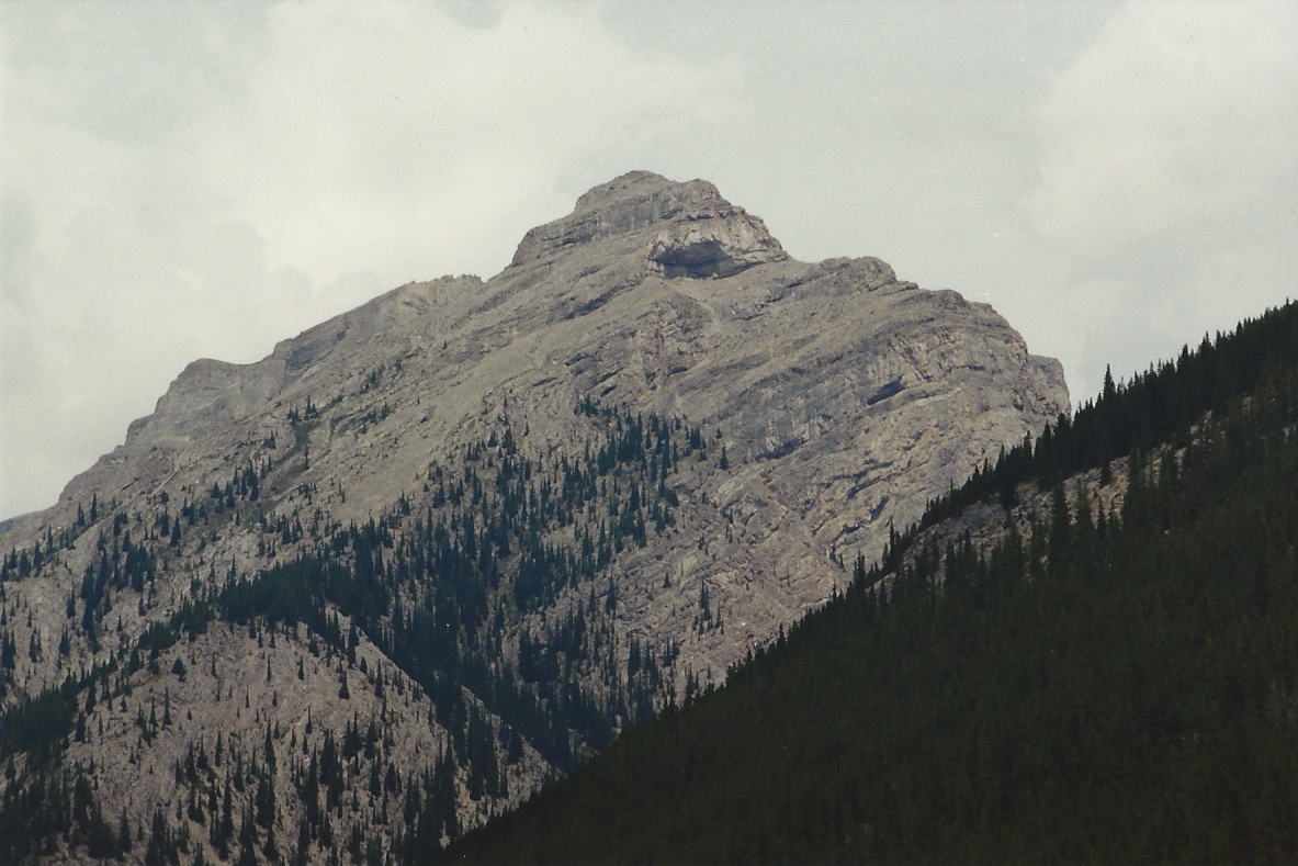 Mount Aylmer, Slate Range, Banff National Park, Alberta, Canada